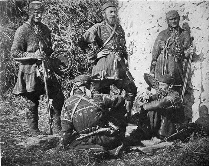 Khevsur clansmen in Georgia